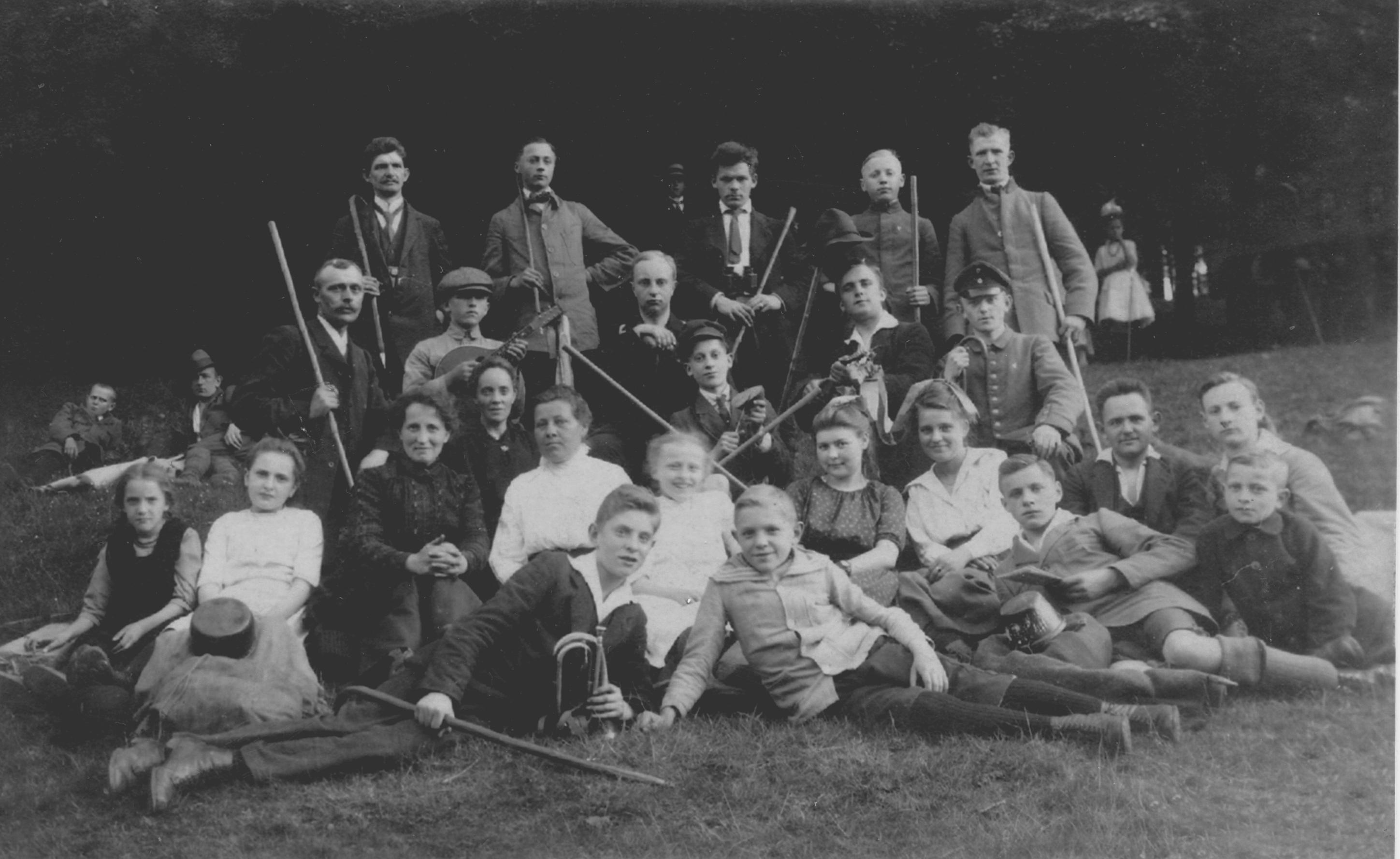 Anna Schlüter, first female SPD member of the cityparlament of Northeim Germany 1919-1922